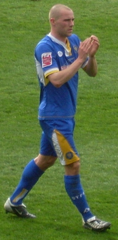 Ben Herd, photograph taken by 03x072 on April 26, 2008. To be added to Ben Herd.